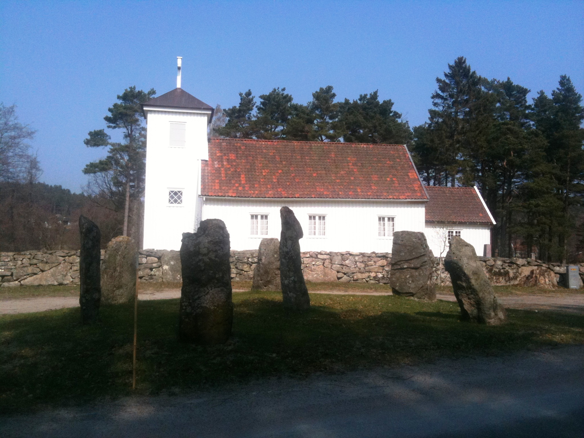 Harkmark medieval church, Mandal, Norway